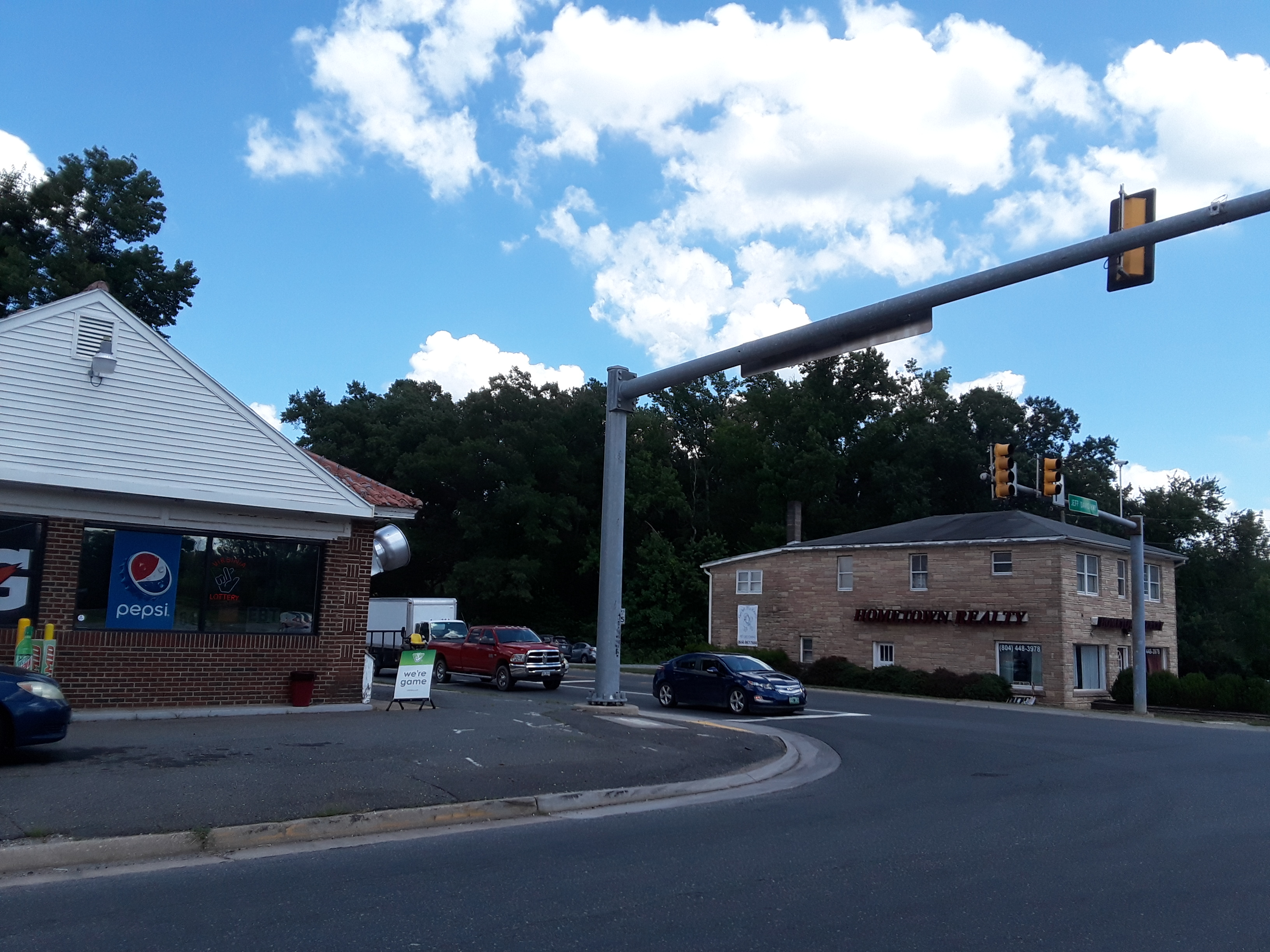 Looking southeast towards the Ladysmith Corner convenience store and Hometown Realty at the intersection of U.S. Route 1 and Virginia State Secondary Route 639 (Ladysmith Road) in Ladysmith, Virginia.